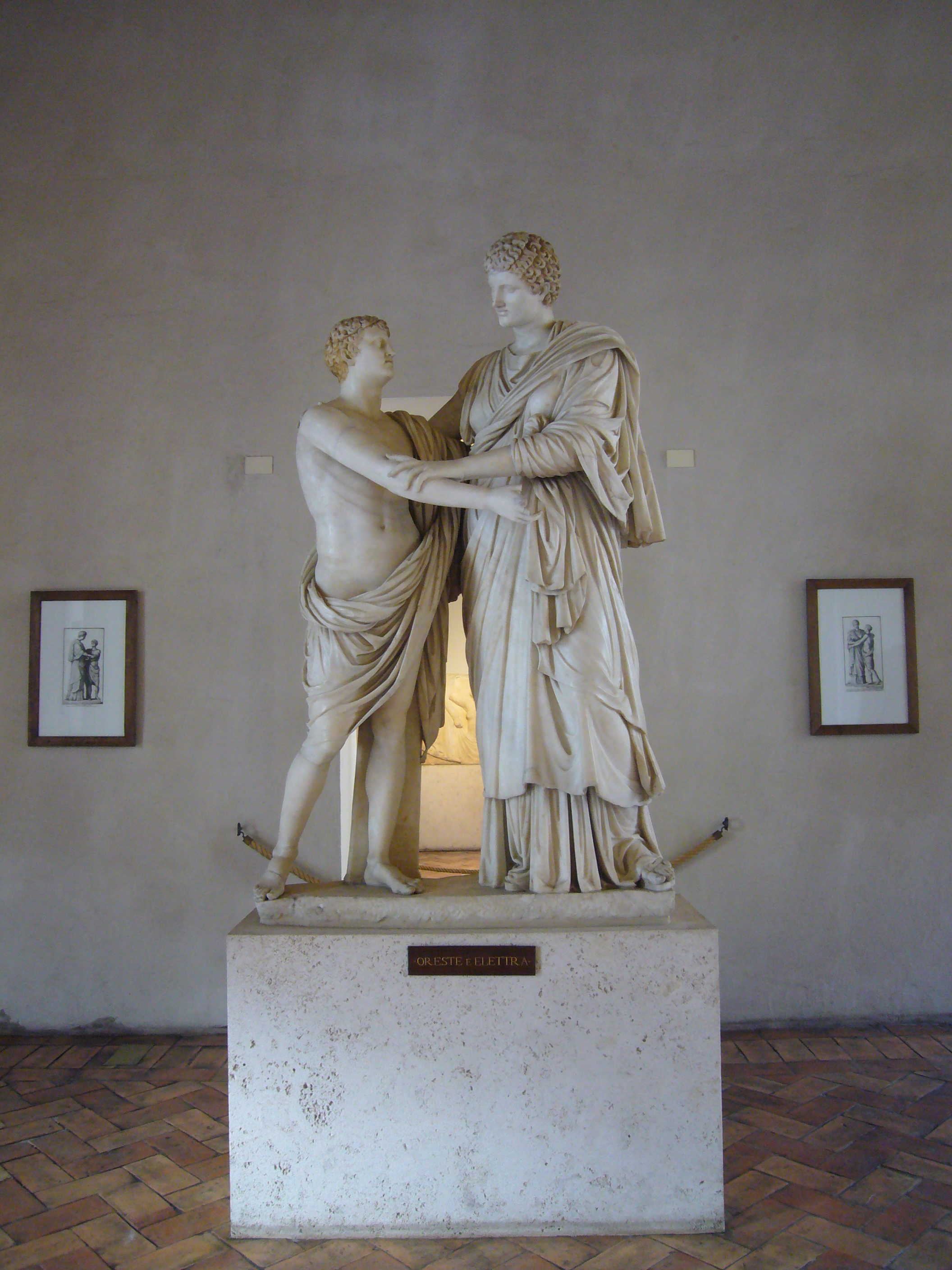 Orestes and Electra, also known as the "Ludovisi Group", with the sculptor's signature: "Menelaos, student of Stephanos, made it". Medium-grained marble, Greek artwork of the eclectic style; some restorations by Ippolito Buzi. From the Horti Sallustiani.